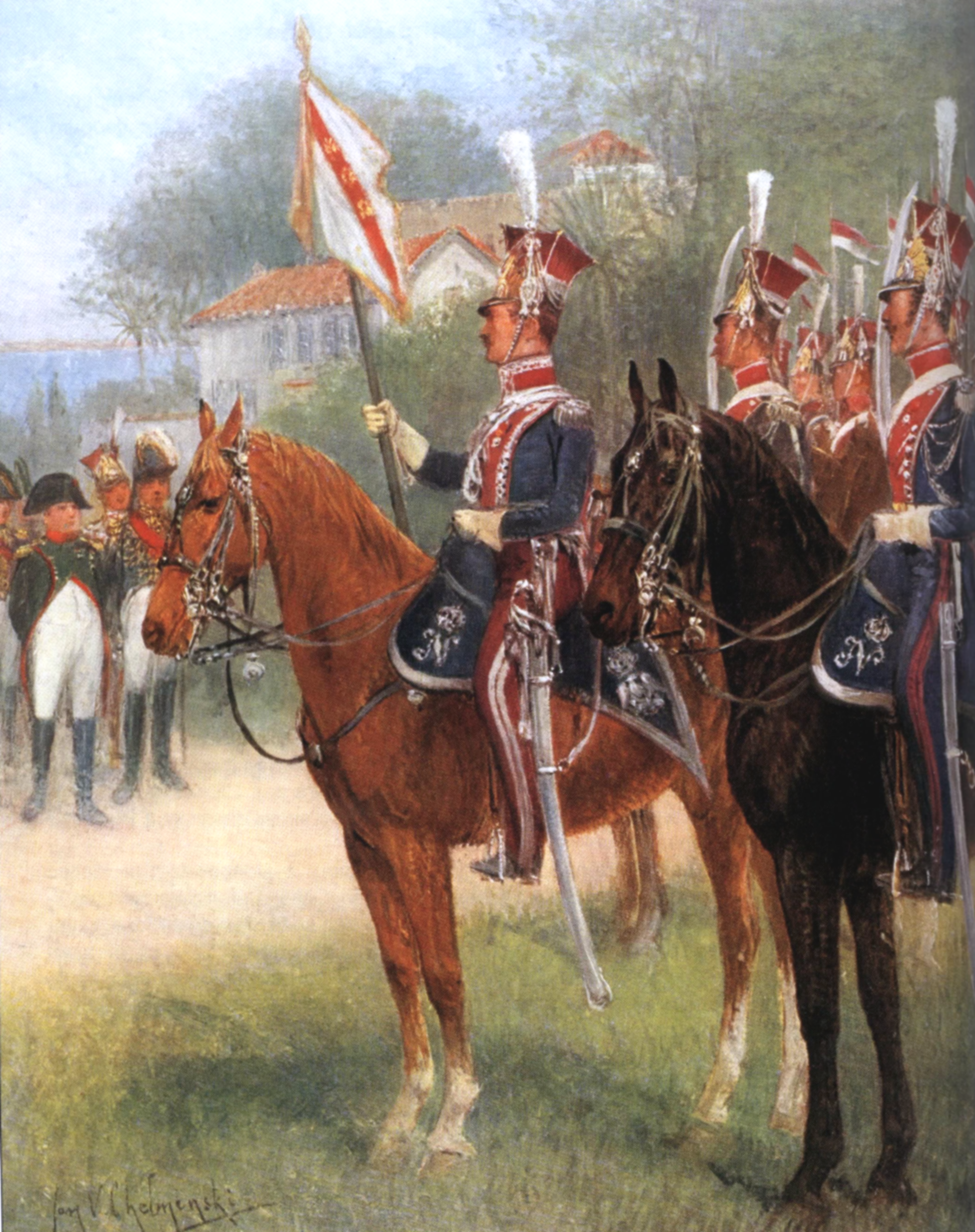 Elba Squadron of the 1st Light Horse Regiment Polish Lancers of the Imperial Guard